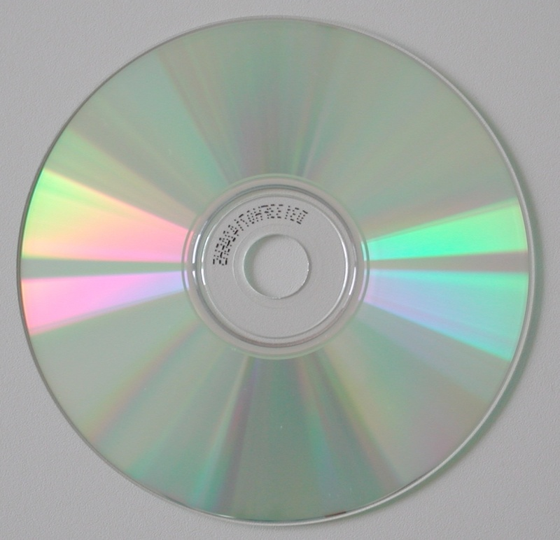 CD-R Back, beverage coaster and (when hung in fruit trees) bird deterrent.